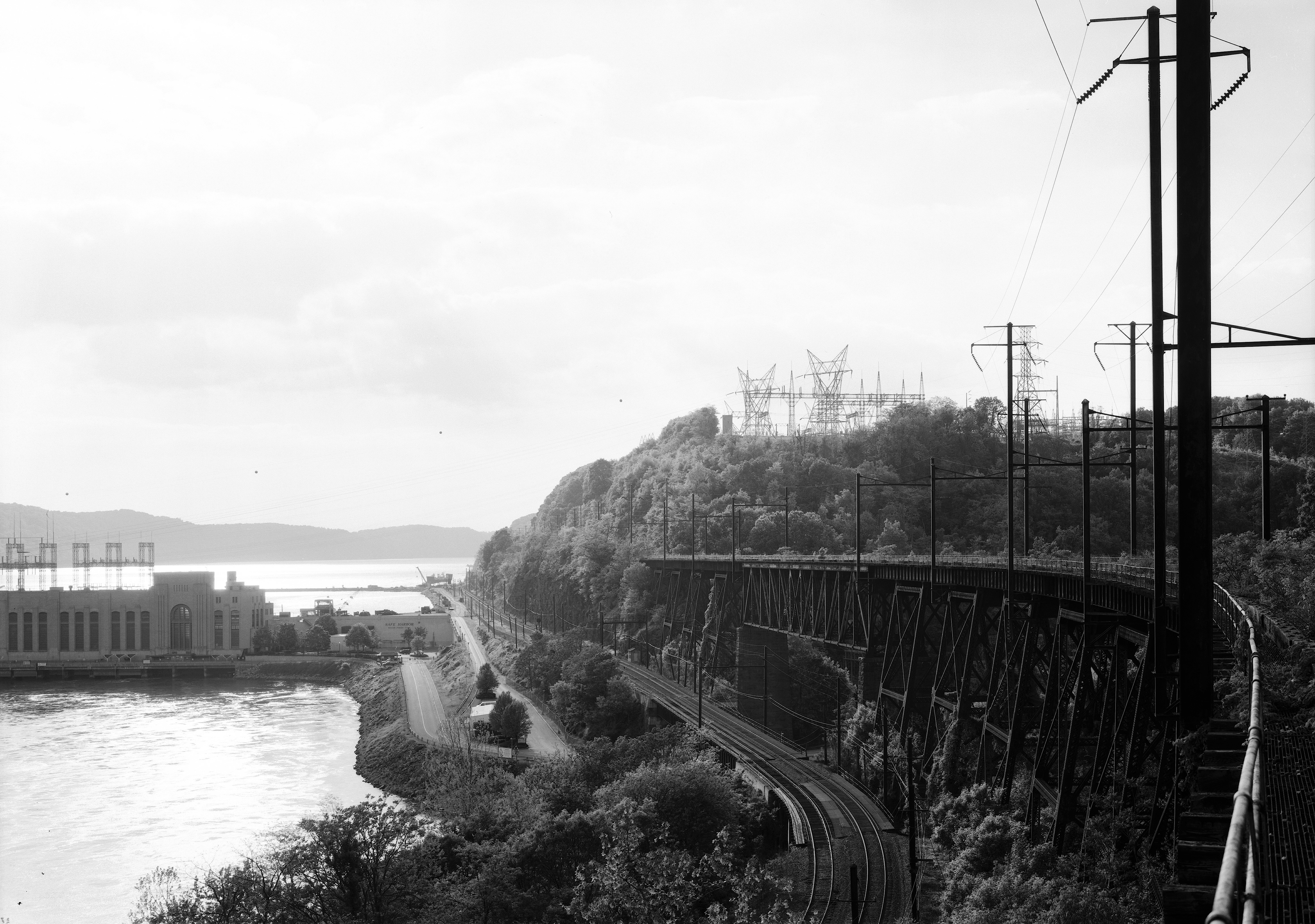 Oblique view, looking WNW from south end of upper level, with safe harbor dam powerhouse at left. - Pennsylvania Railroad, Safe Harbor Bridge, Spanning mouth of Conestoga River, Safe Harbor, Lancaster County, PA